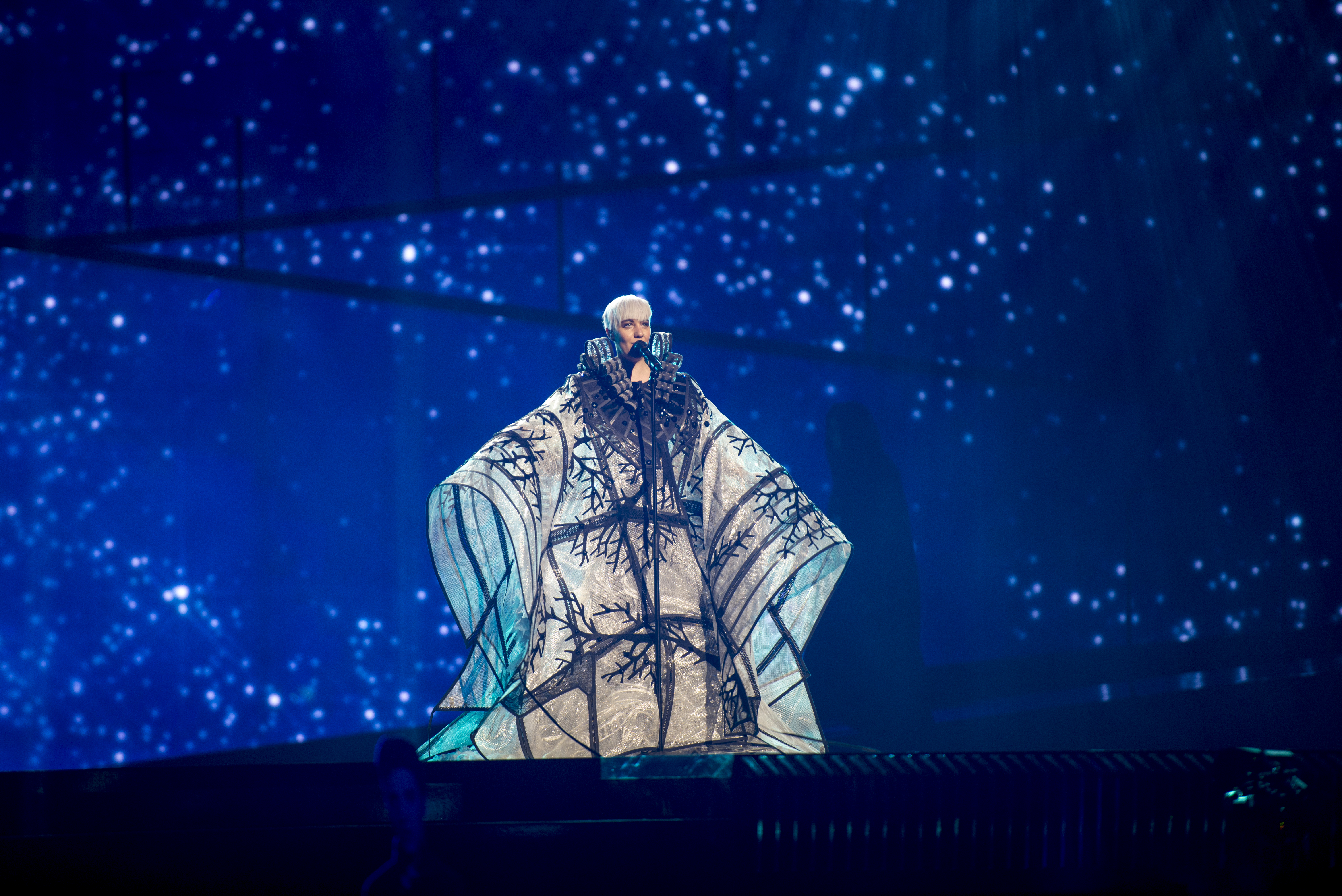 Nina Kraljić representing Croatia with the song "Lighthouse" during a rehearsal before the first semi final of the Eurovision Song Contest 2016 in Stockholm. (Help translate this text)